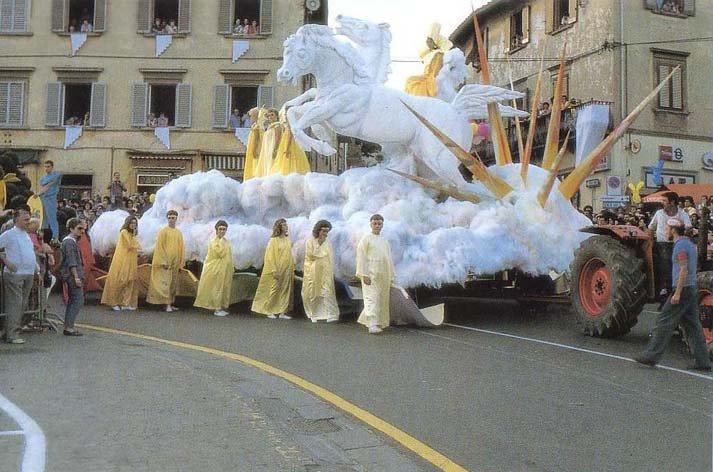 Rione delle Fornaci, Festa dell'Uva 1985.